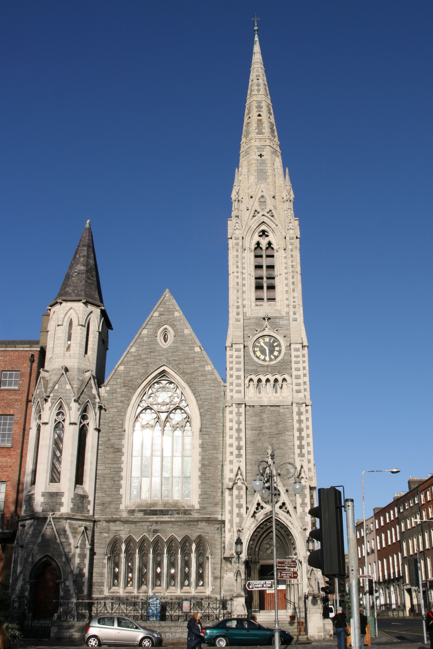 Findlater's Church, Parnell Square, Dublin. By architect Andrew Heiton. French Gothic style.